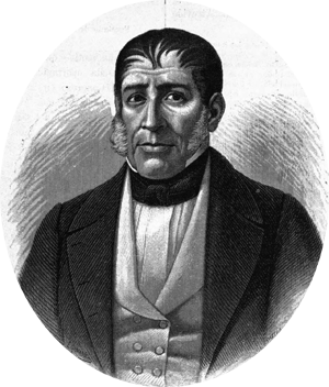 José Joaquín de Herrera